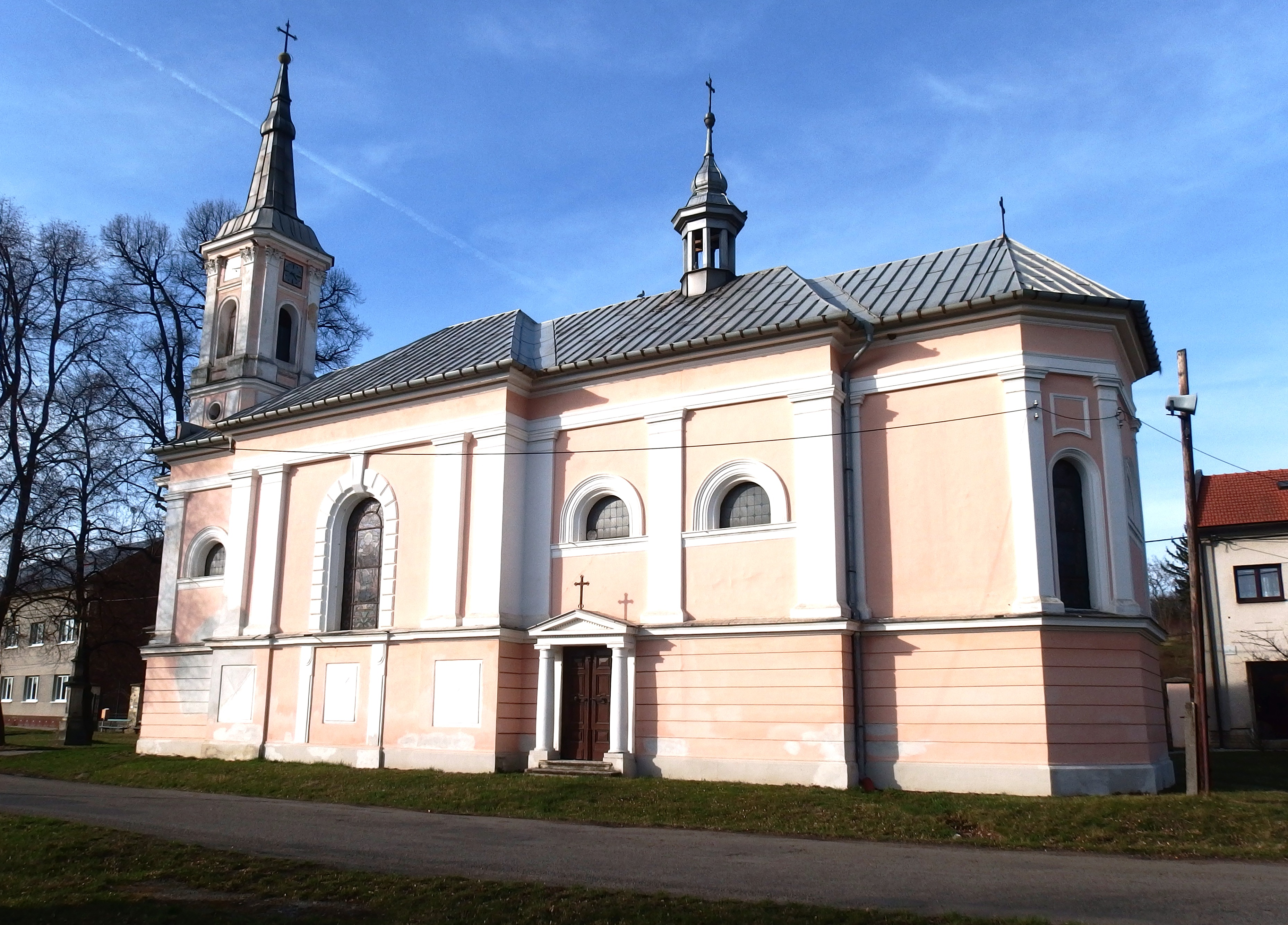 Prostějov, Czech Republic, part Žešov.